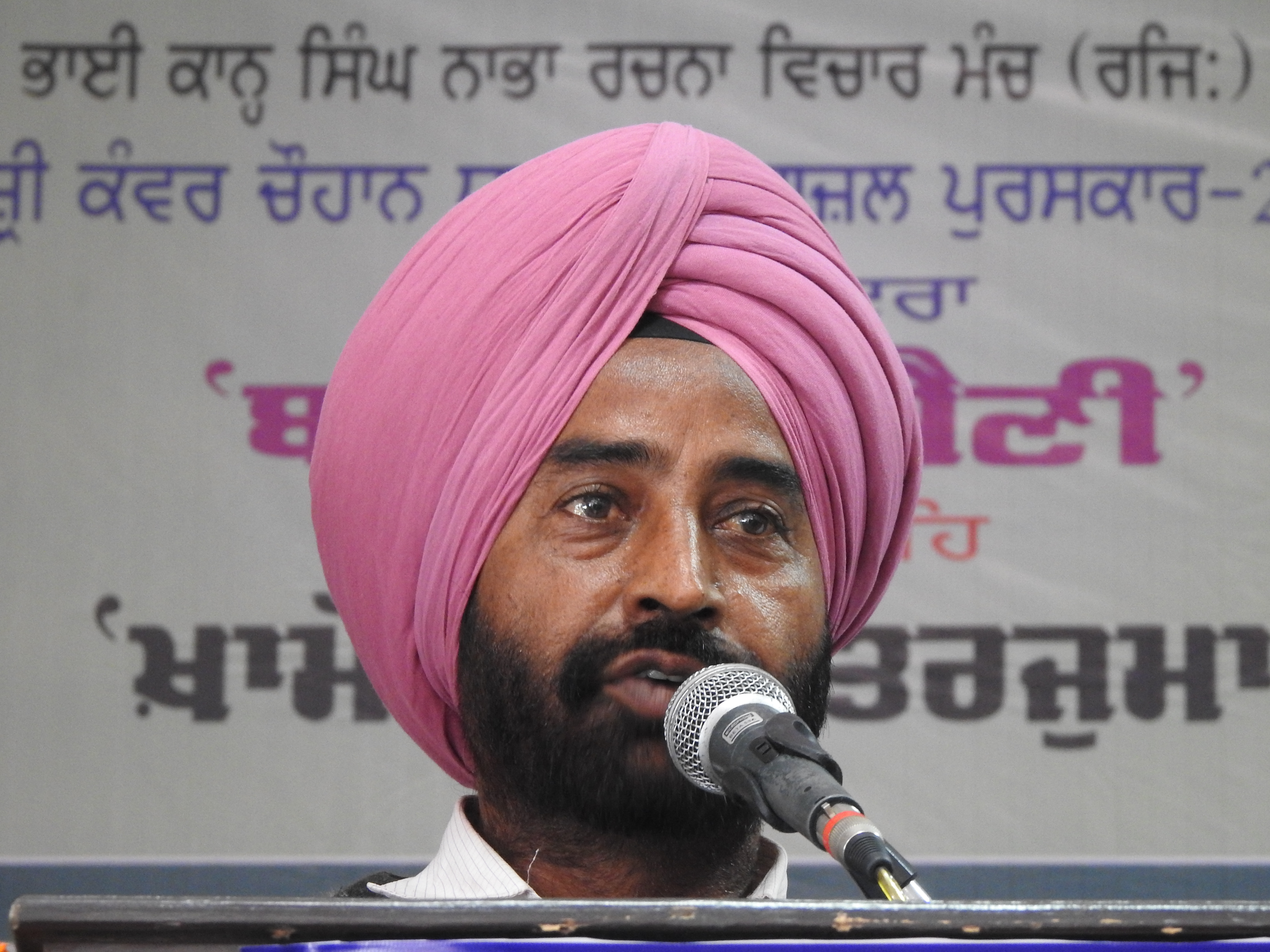 Jagseer Jida ,Punjabi poet /Singer